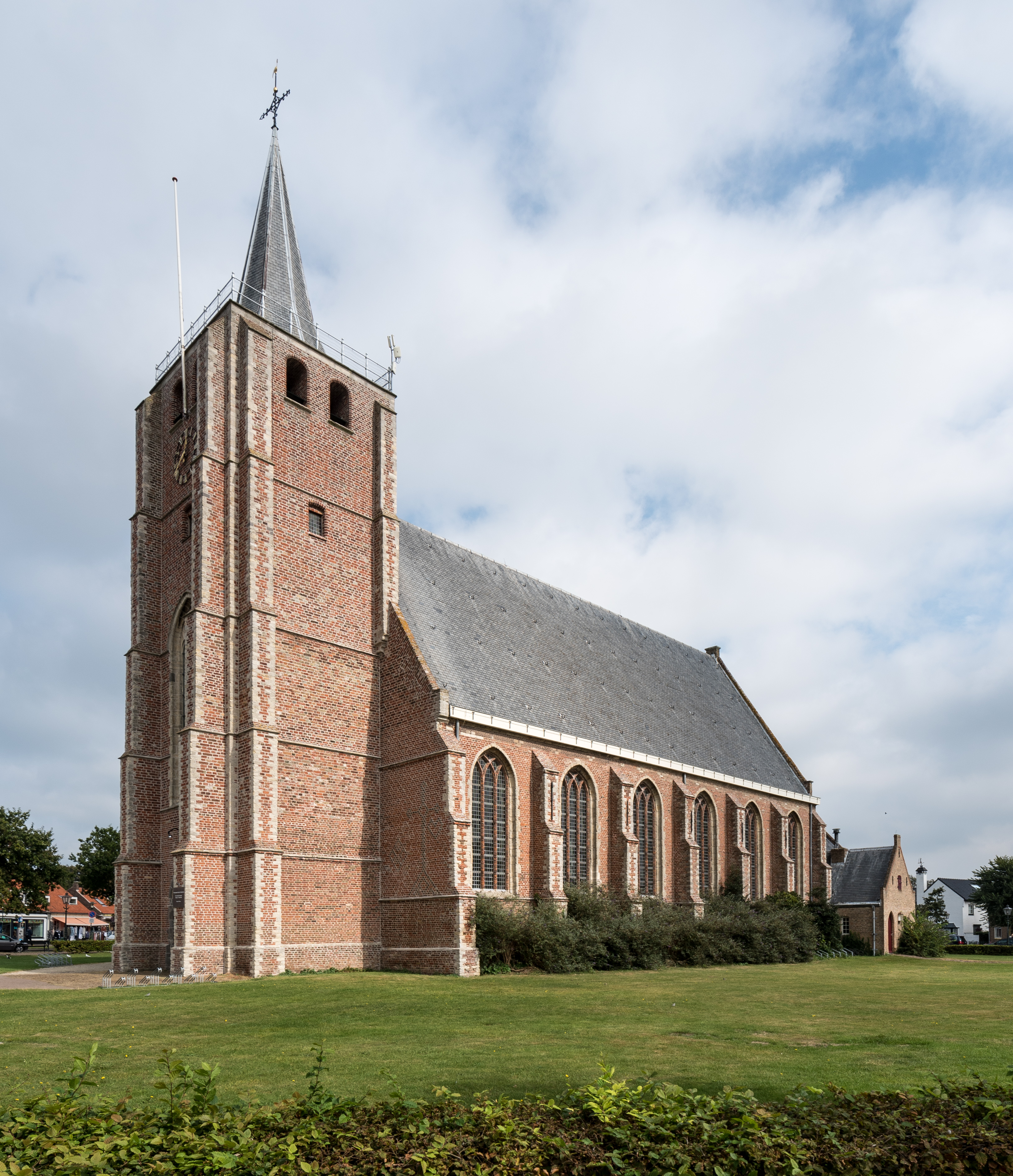 Church Sint Jacobus in Renesse, south-west side